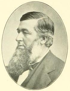 Portrait of Mayor of Auburn NY David M. Osborne (1822-1886)